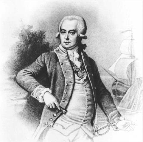 Grigory Shelikhov, from the Library of Congress. Made with a lithograph.